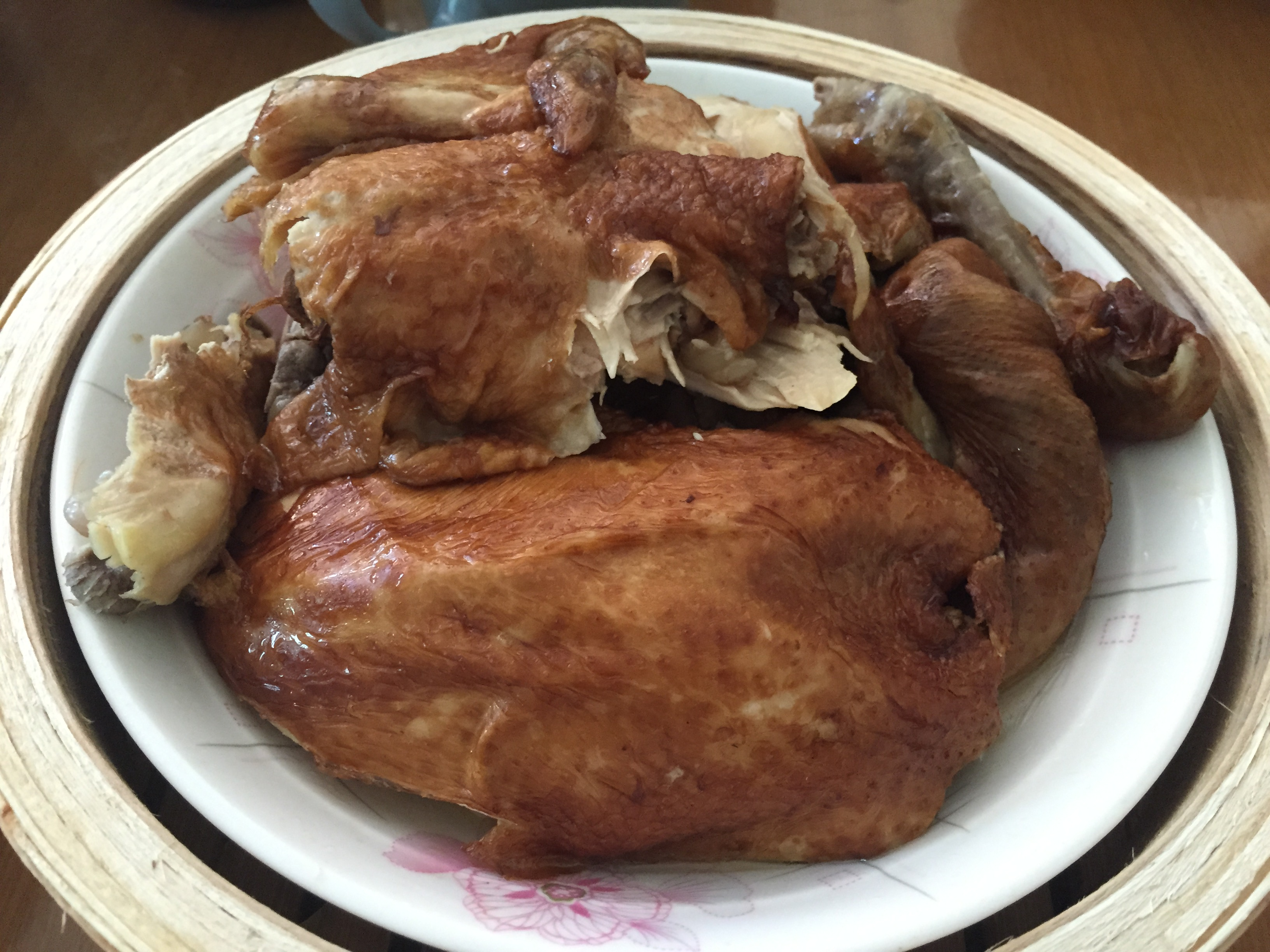 After some cuts for heating...